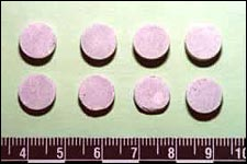 PMMA (para-methoxymethamphetamine) tablets seized in Maryland, USA